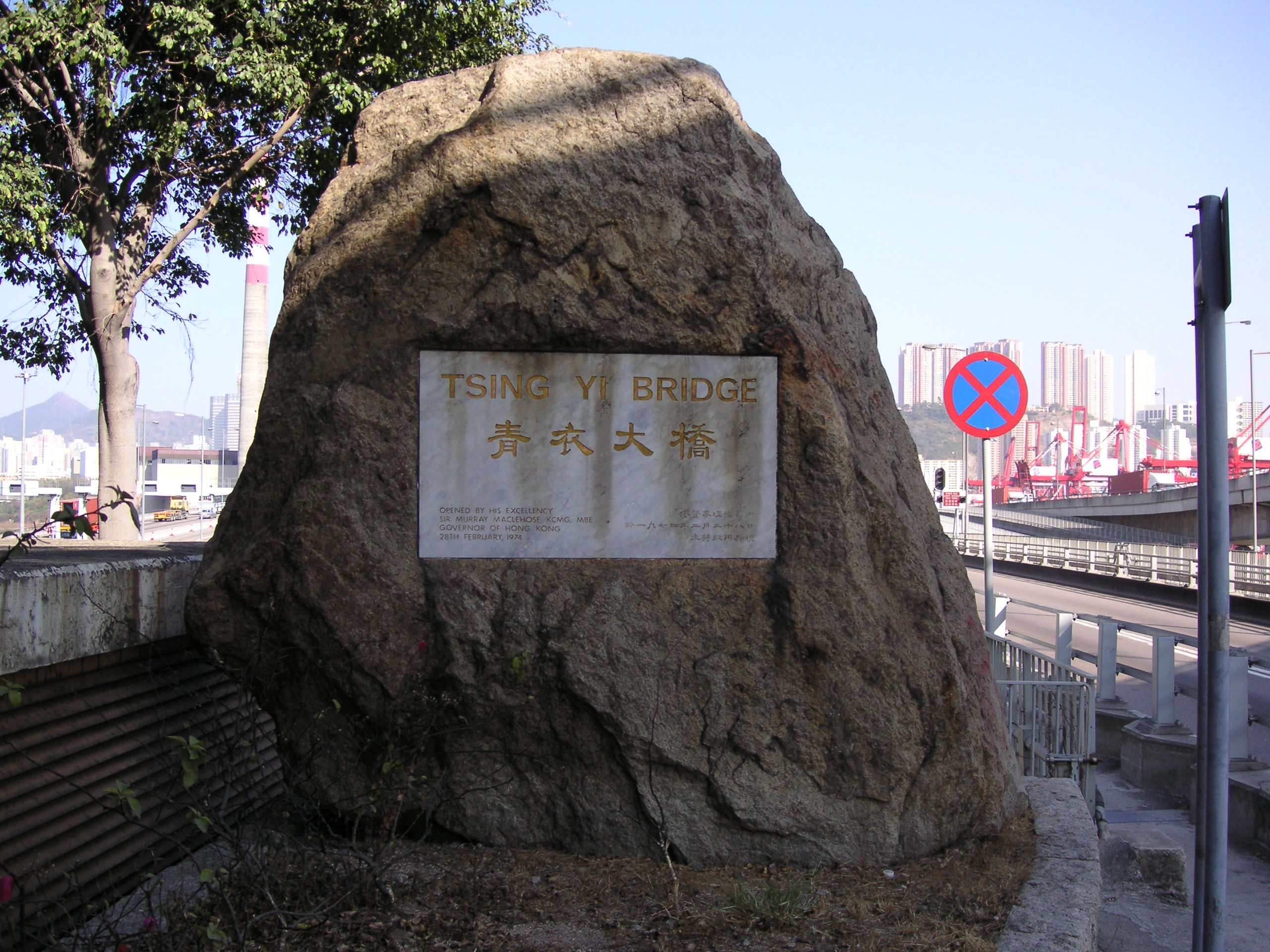 Tsing Yi Bridge Stone 中文（香港）: 青衣大橋碑。